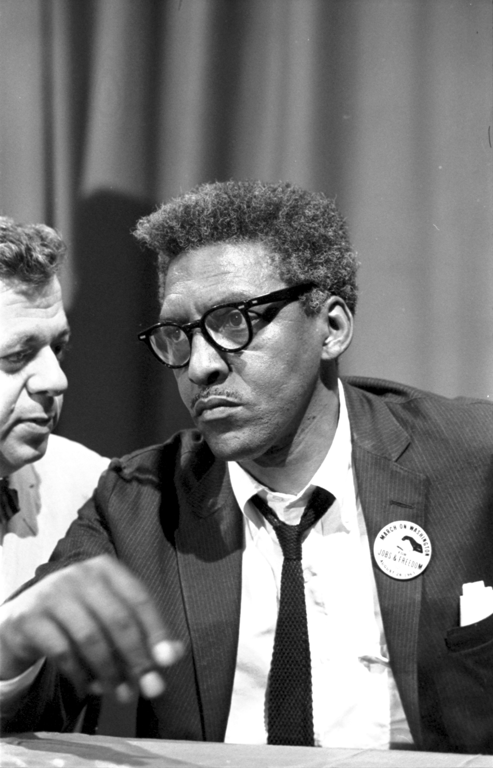 Bayard Rustin at news briefing on the Civil Rights March on Washington in the Statler Hotel, half-length portrait, seated at table